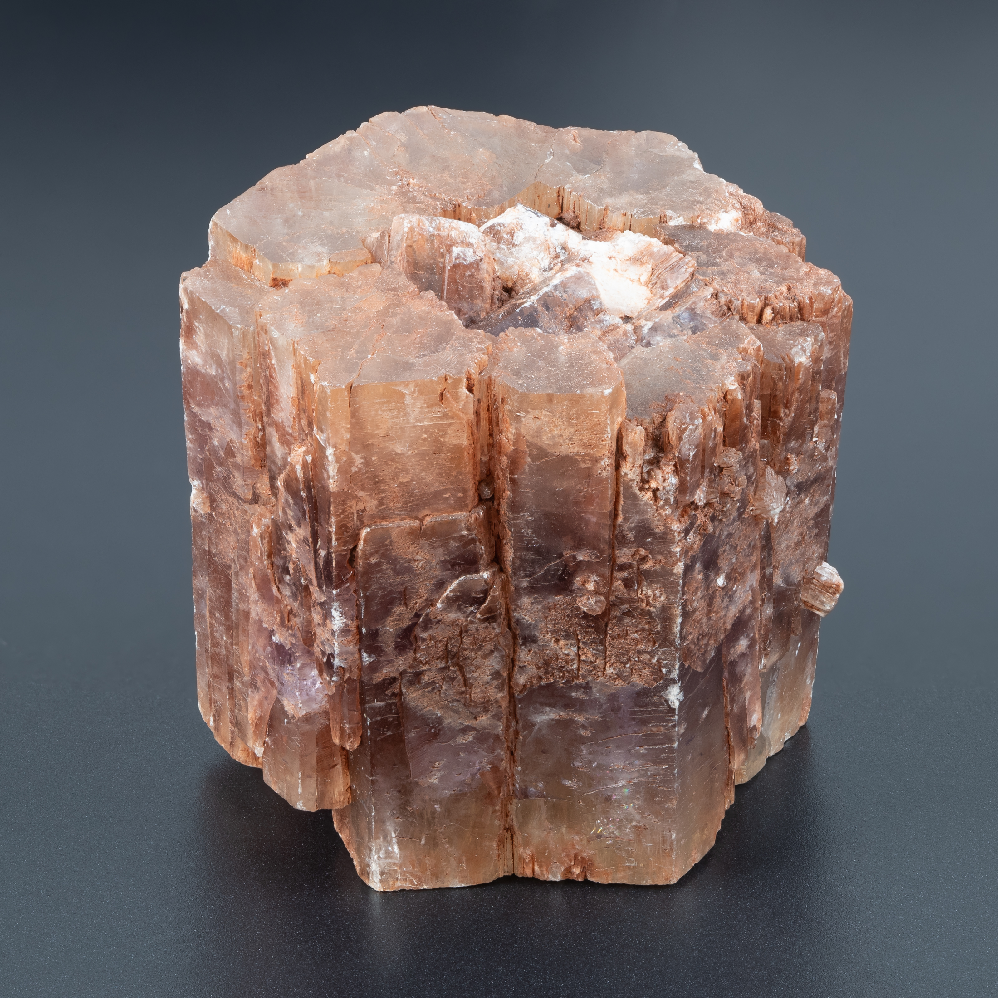 Aragonite crystal - Los Molinillos, Ceunca, Spain. Size 4×3.6×3.5 cm, weight 100 g